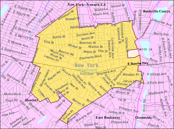 U.S. Census 2000 reference map for Lynbrook, New York